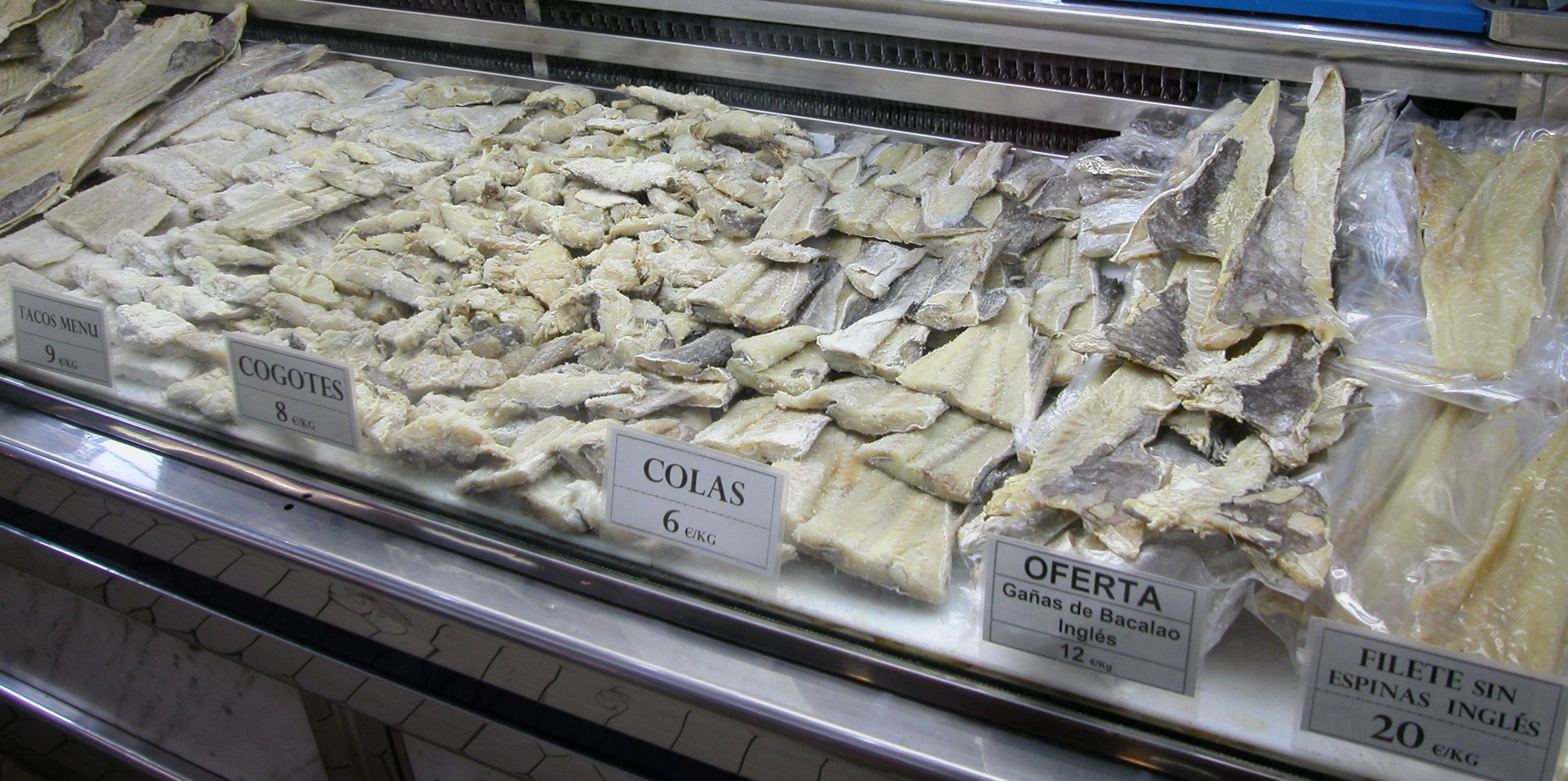 Varieties of salt cod for sale, Central Market, Valencia, Spain.